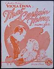 Description: Low-resolution image of poster for the silent movie That Certain Thing (1928), directed by Frank Capra, featuring stars Ralph Graves and Viola Dana.